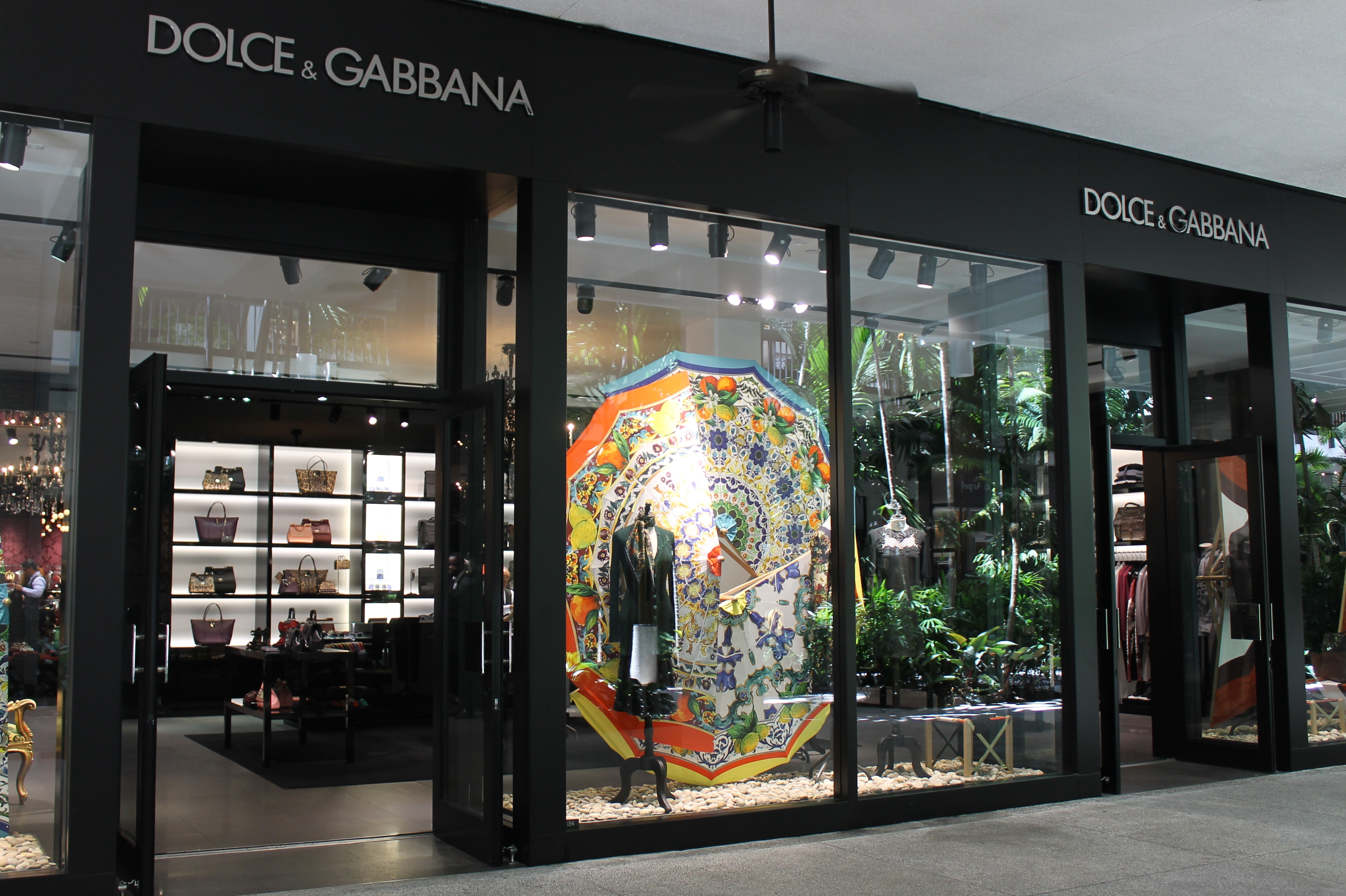 Dolce & Gabbana Bal Harbour